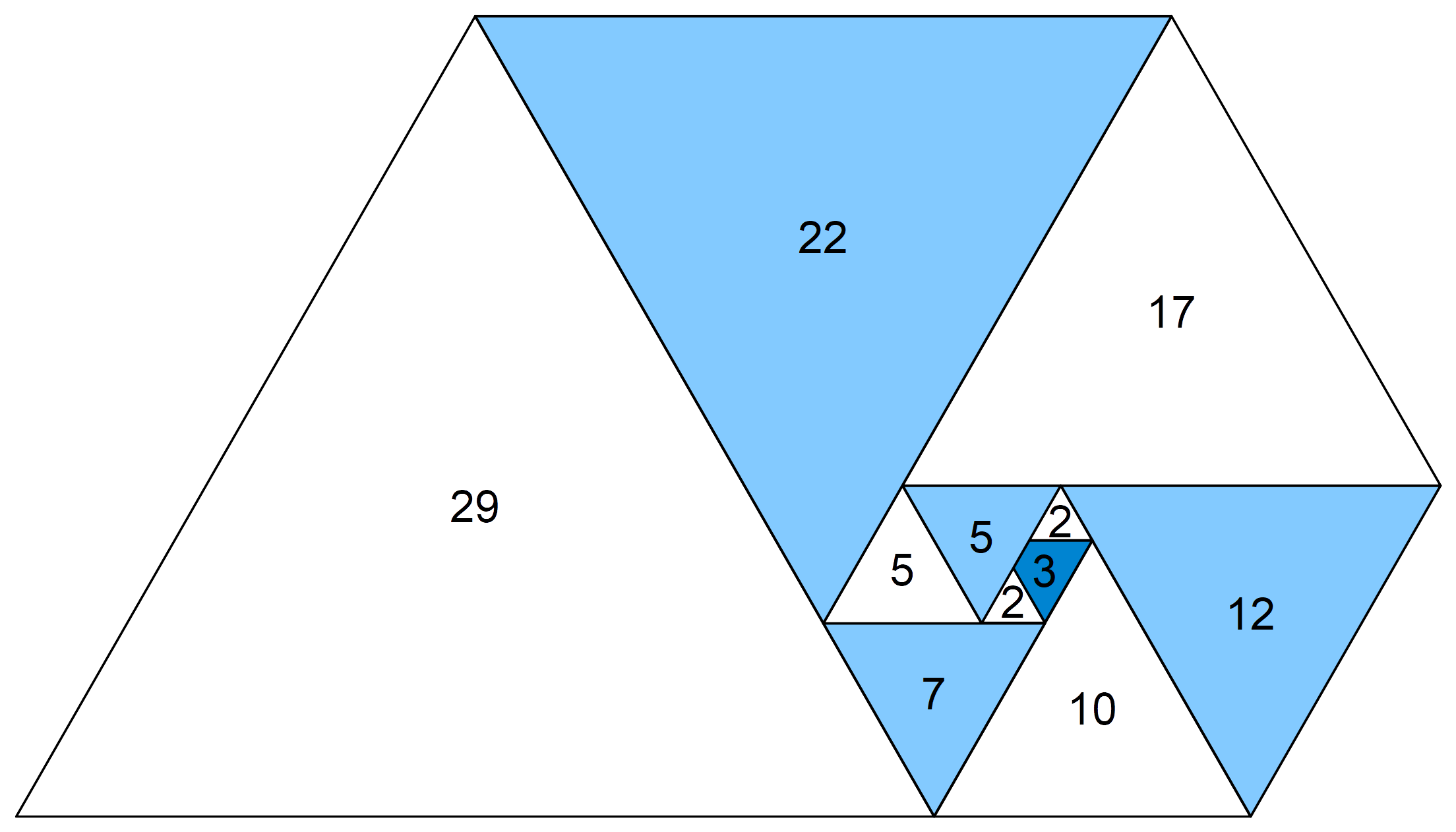 Spiral of equilateral triangles with side lengths which follow the Perrin sequence. Akin to File:Padovan triangles (1).png. 3, 0, 2, 3, 2, 5, 5, 7, 10, 12, 17, 22, 29... The first two terms may be ignored or the spiral may be considered to begin clockwise (3, 0, 2), and then flip to counterclockwise (2, 3, 2...), with both 3s in the same location. The 3 triangle is marked dark blue to point out it being snubbed.